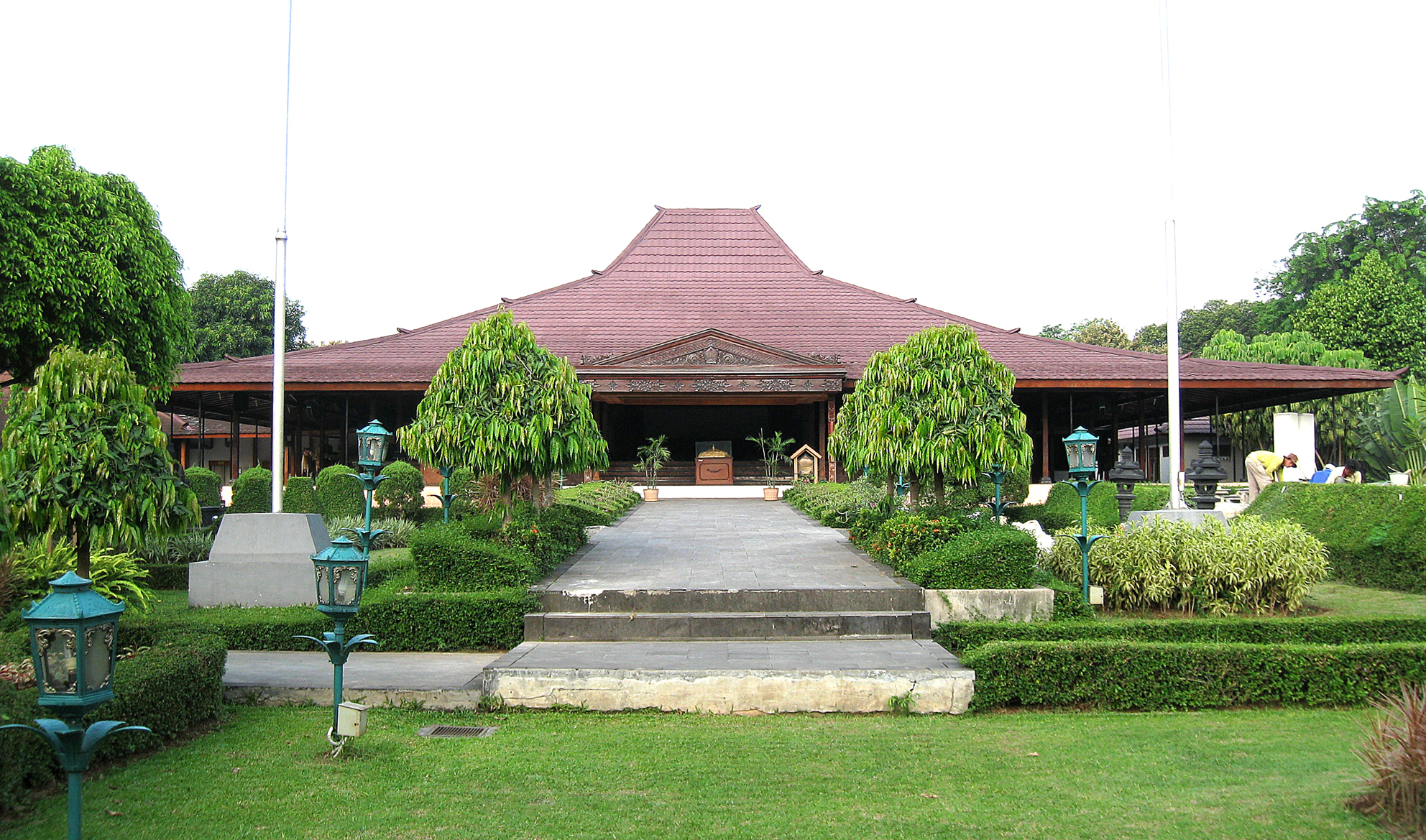 The Central Javanese pavilion's Pendopo modeled after Mangkunegaran palace, Taman Mini Indonesia Indah, Jakarta.